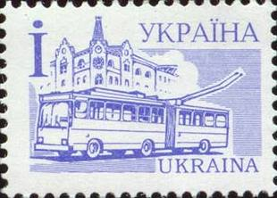 Stamp of Ukraine